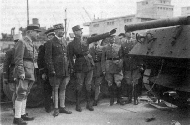 Inspecting US equipment, Col Blanc, General Giraud, Brigadier General Leyer